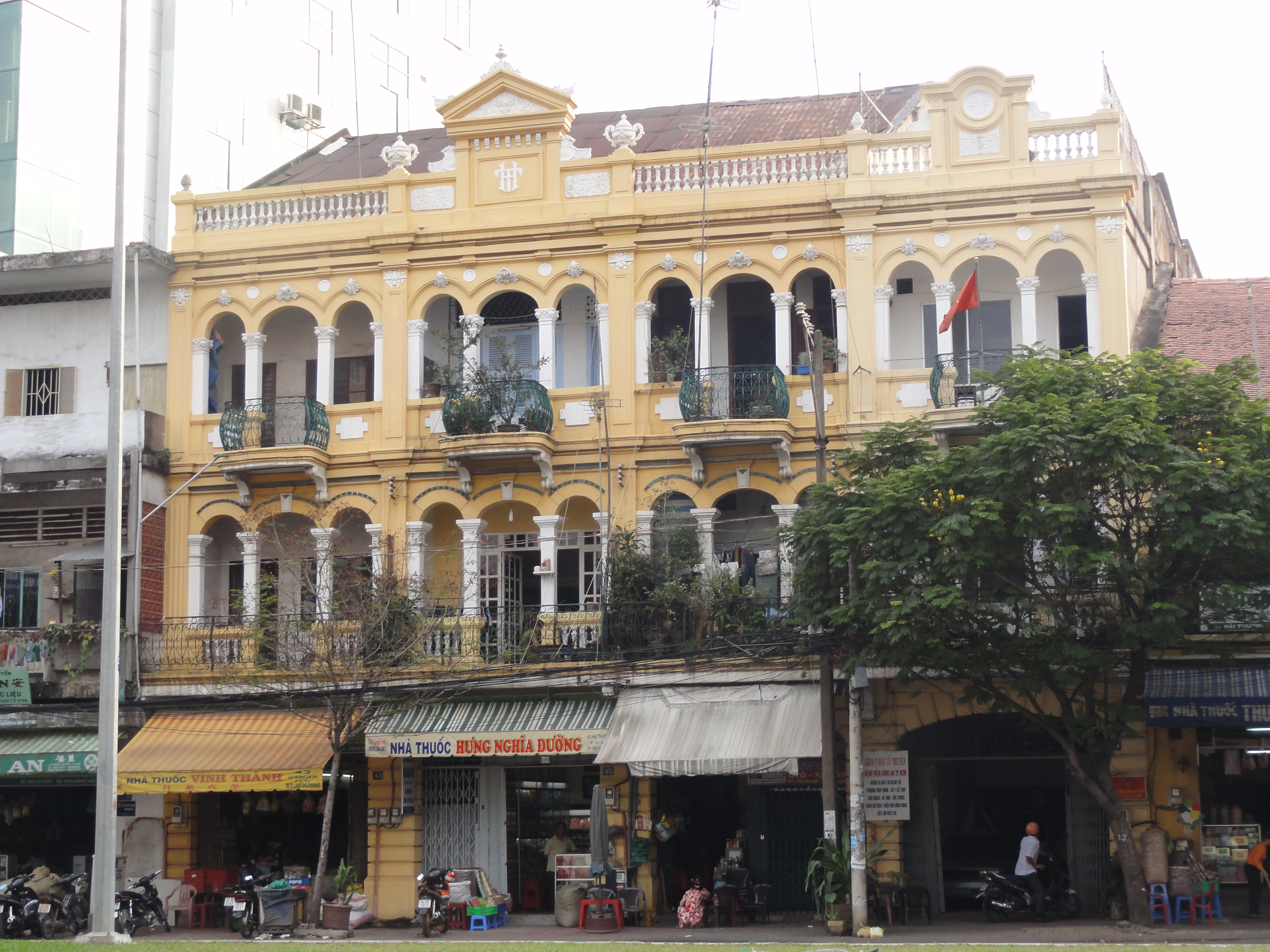 Old Chinese buildings in Cho Lon, Vietnam